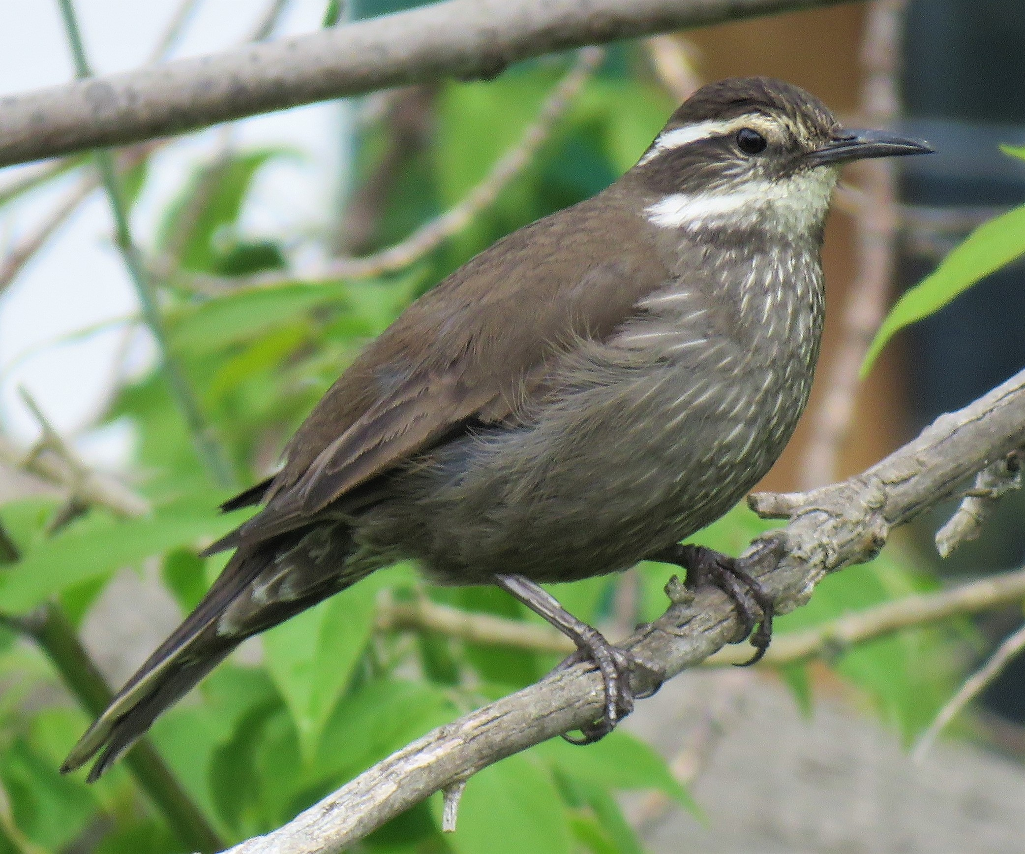 Cinclodes patagonicus at Tierra del Fuego, Argentina.